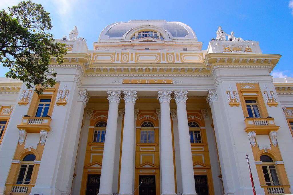 Pernambuco State Court (Tribunal de Justiça) in Recife, Brazil